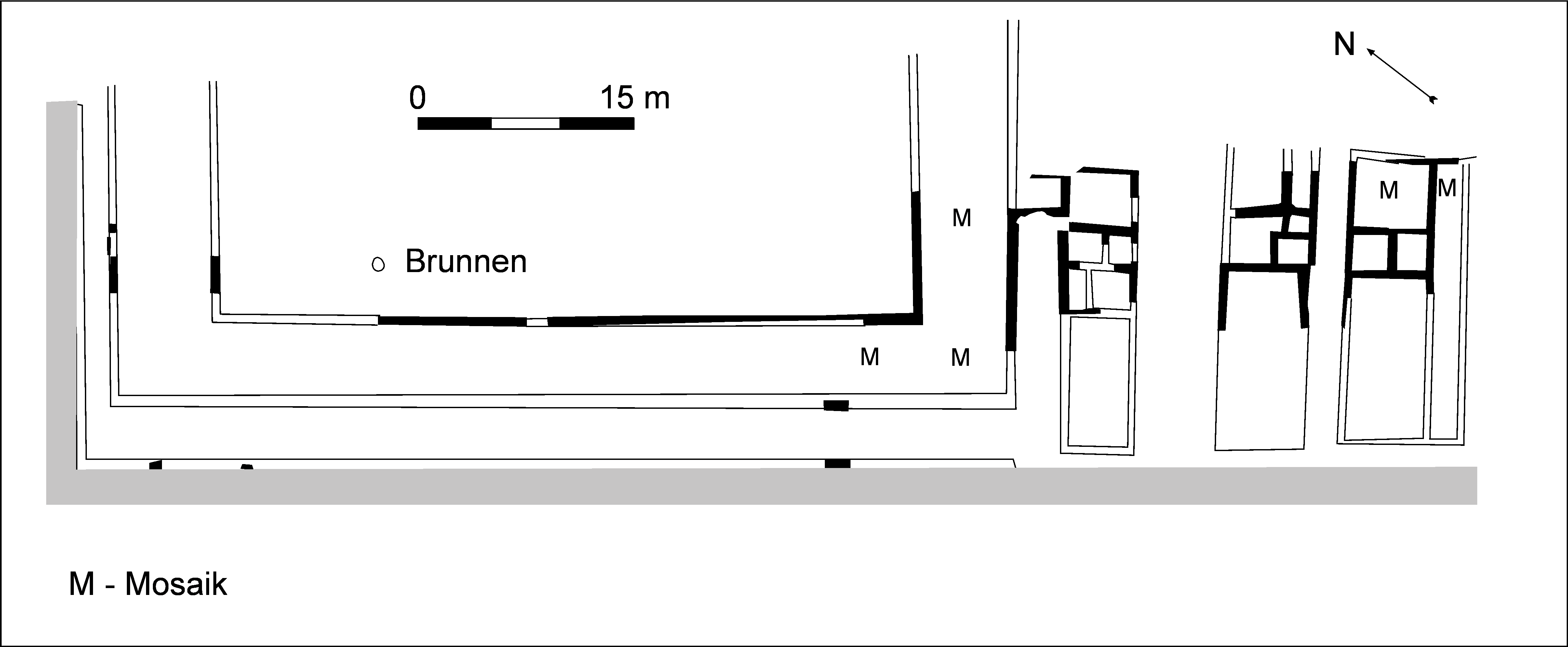 Cirencester, excavated Roman buildings, Insula VI